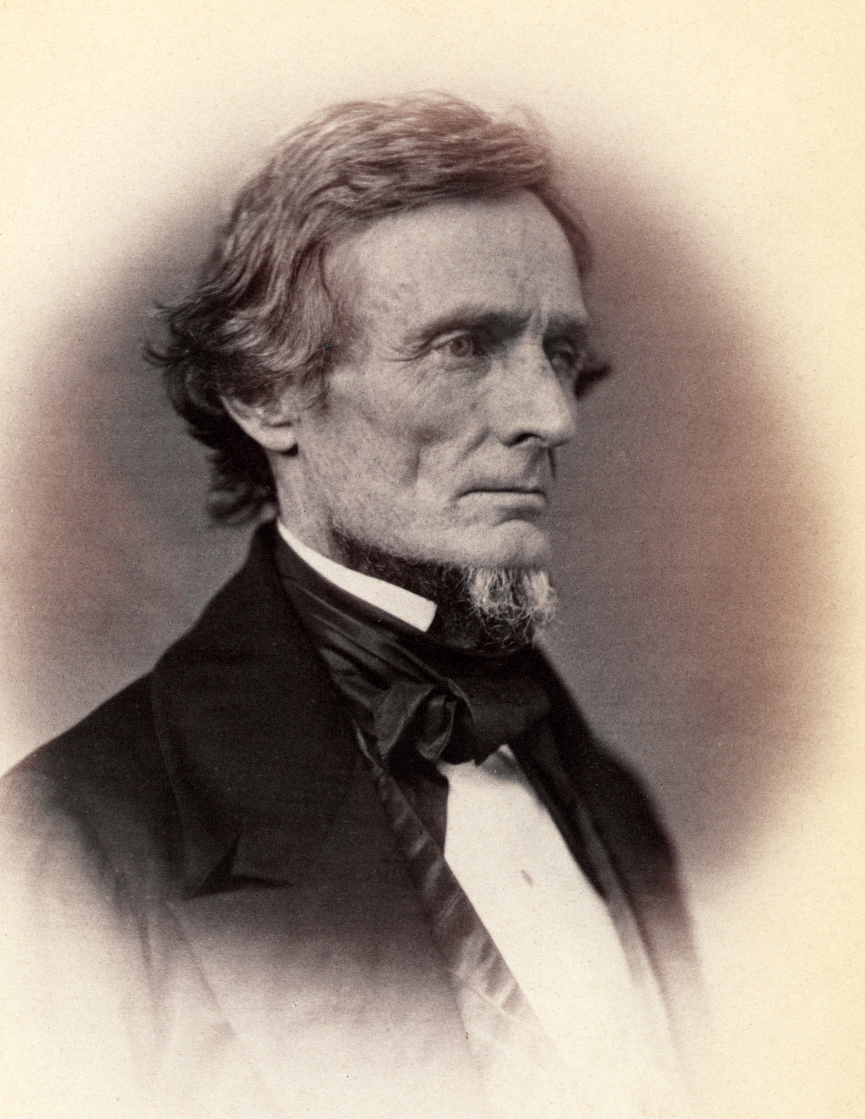 Jefferson Davis, Senator from Mississippi, Thirty-fifth Congress, head-and-shoulders portrait, facing right